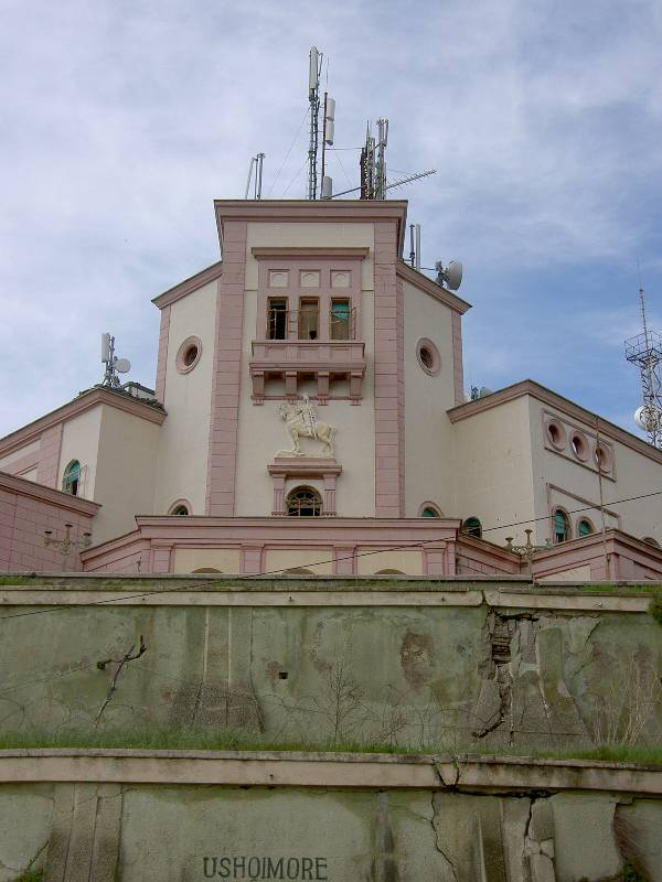 The Palace of king Zog I in the city of Durrës, Albania.